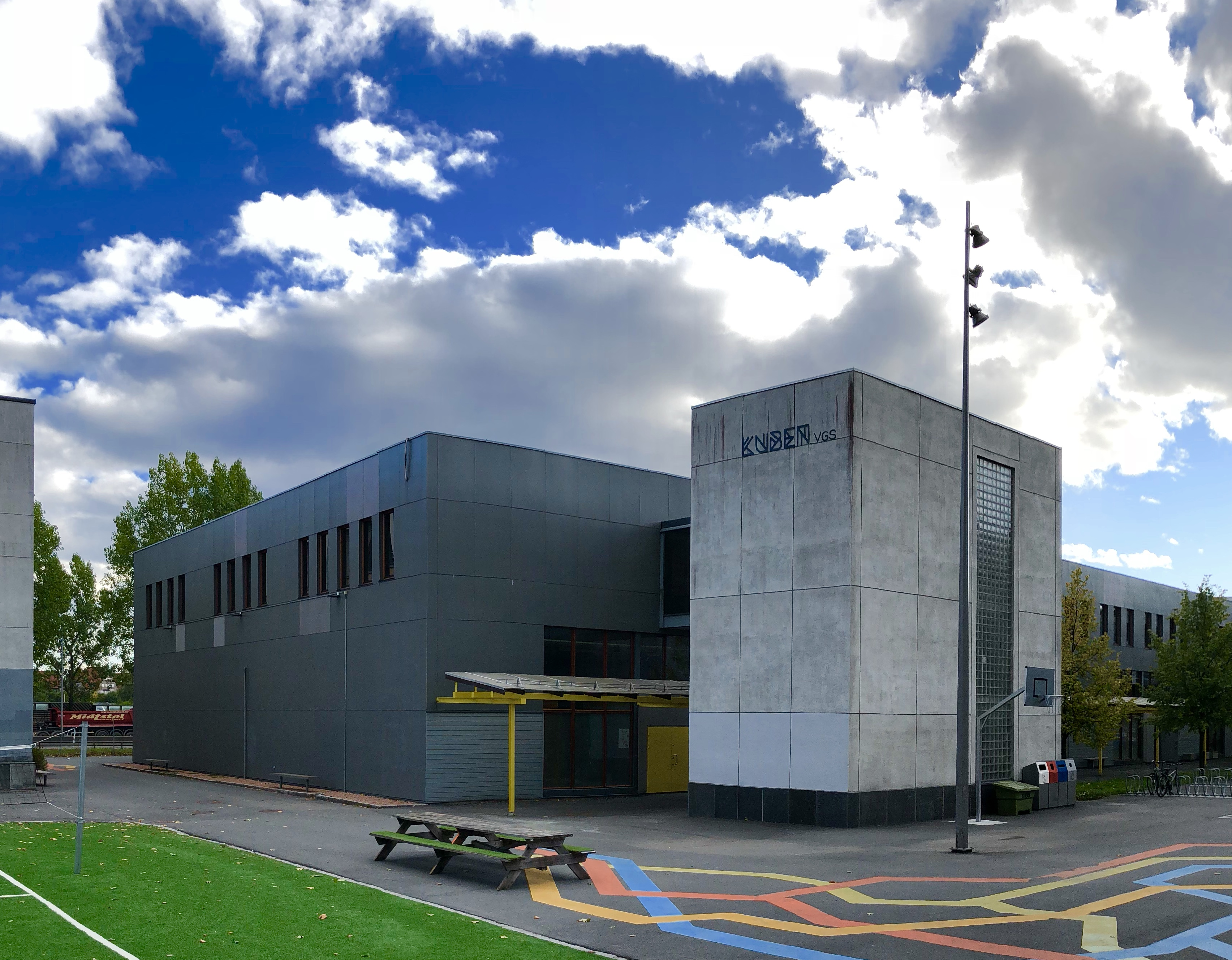 Kuben Upper Secondary Schools department at Ullevål, in a restored building of former Sogn Upper Secondary School.